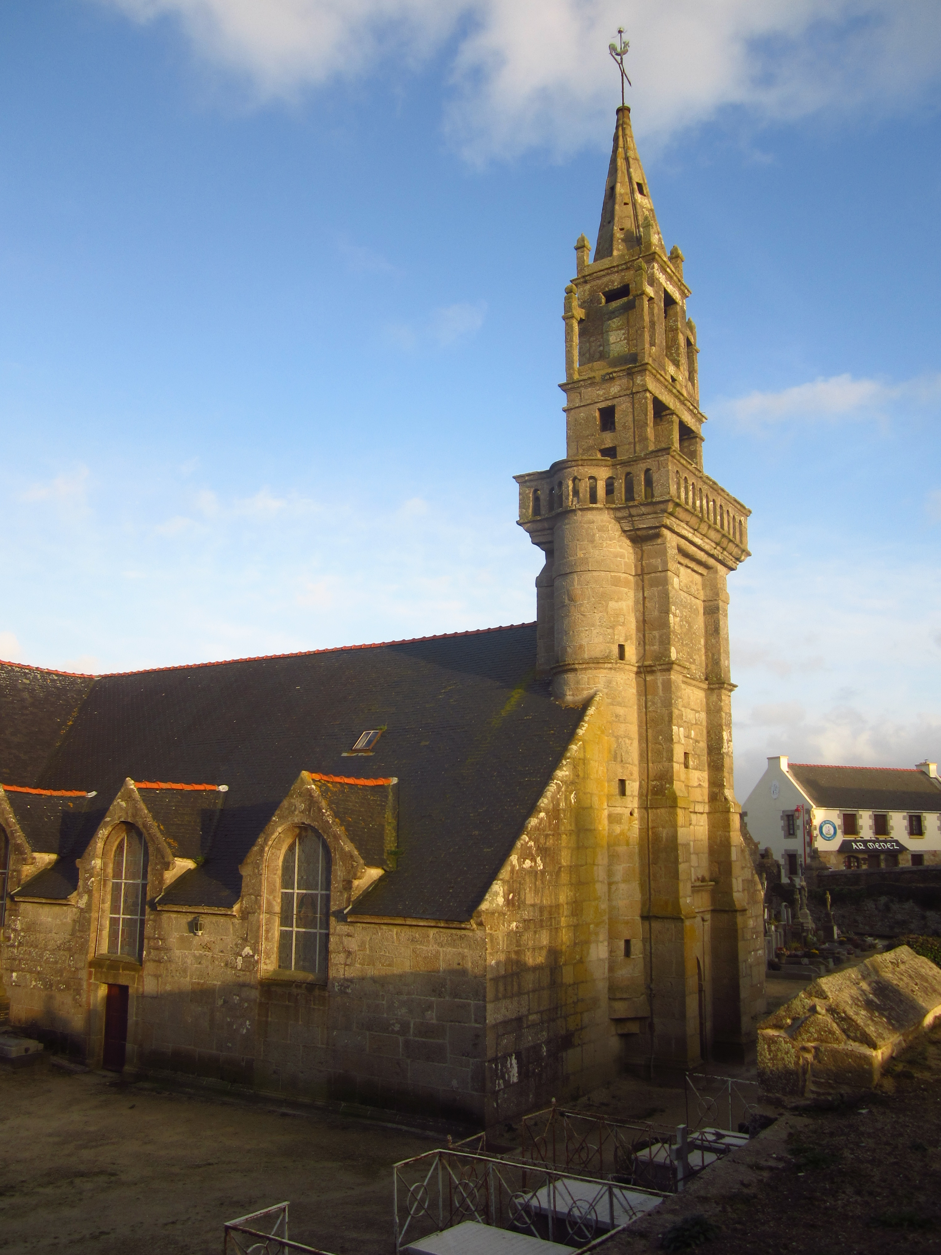 Church of Tréflez, Finistère